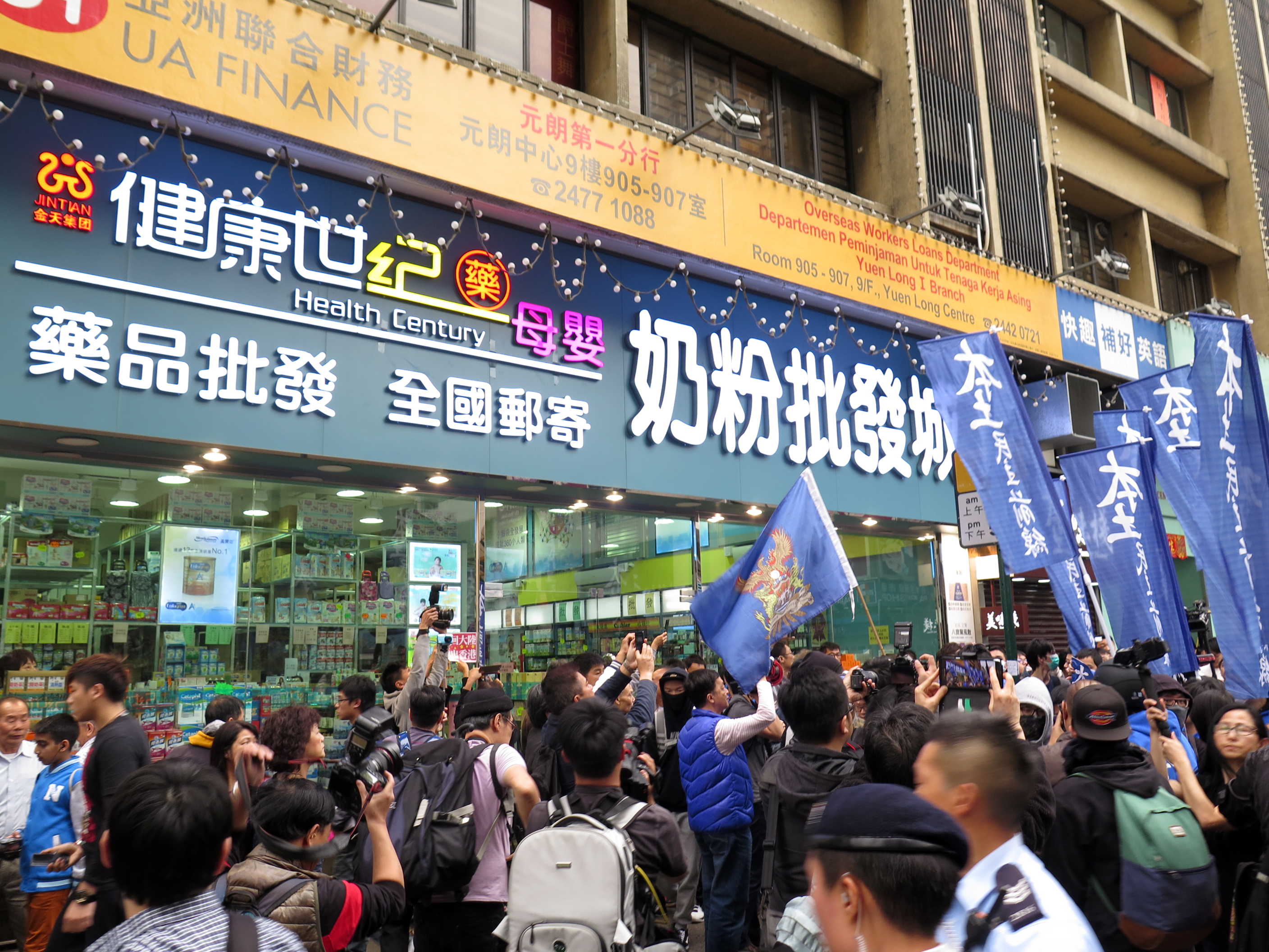 Sau Fu Street Health Century Shops outside protesters